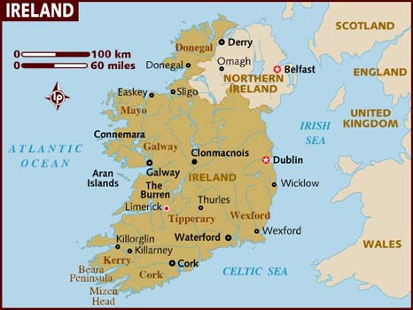 From this image, we can see some of the towns that the race passes through.